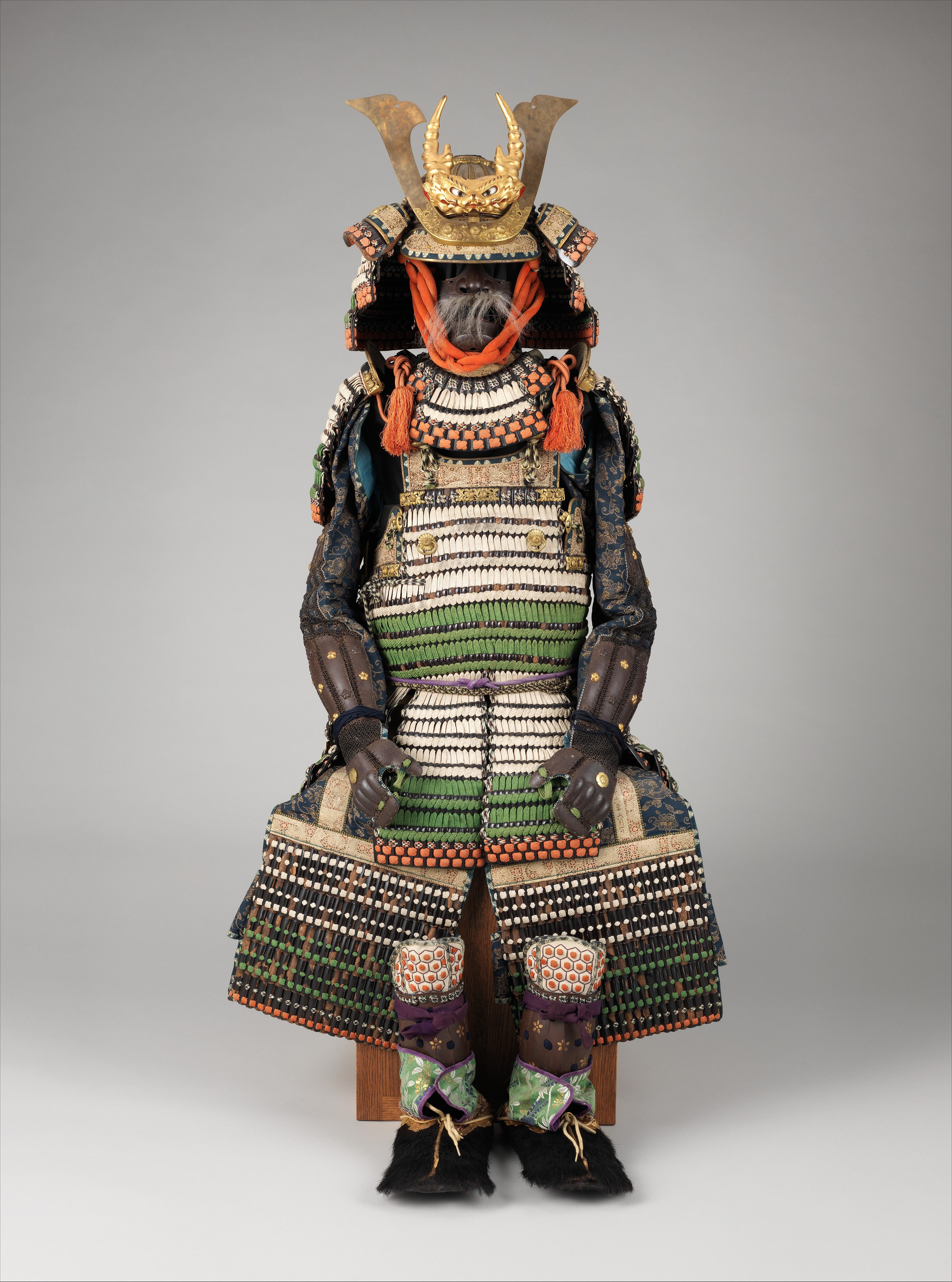 Japanese; Armor (Haramaki); Armor for Man